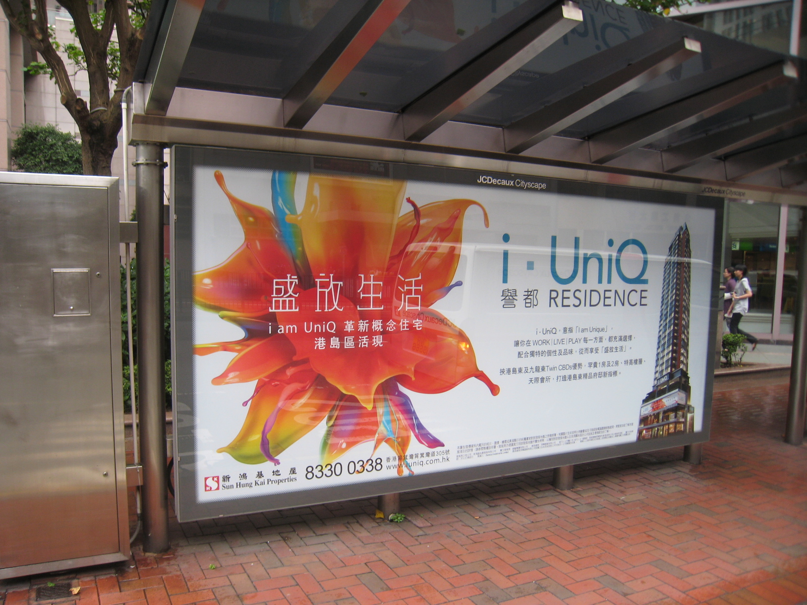 i.UniQ Residence Bus Shelter